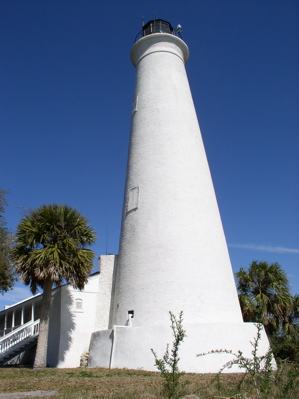 The Saint Marks Lighthouse at the end of Lighthouse Road in the St. Marks National Wildlife Refuge, Wakulla County, Florida.